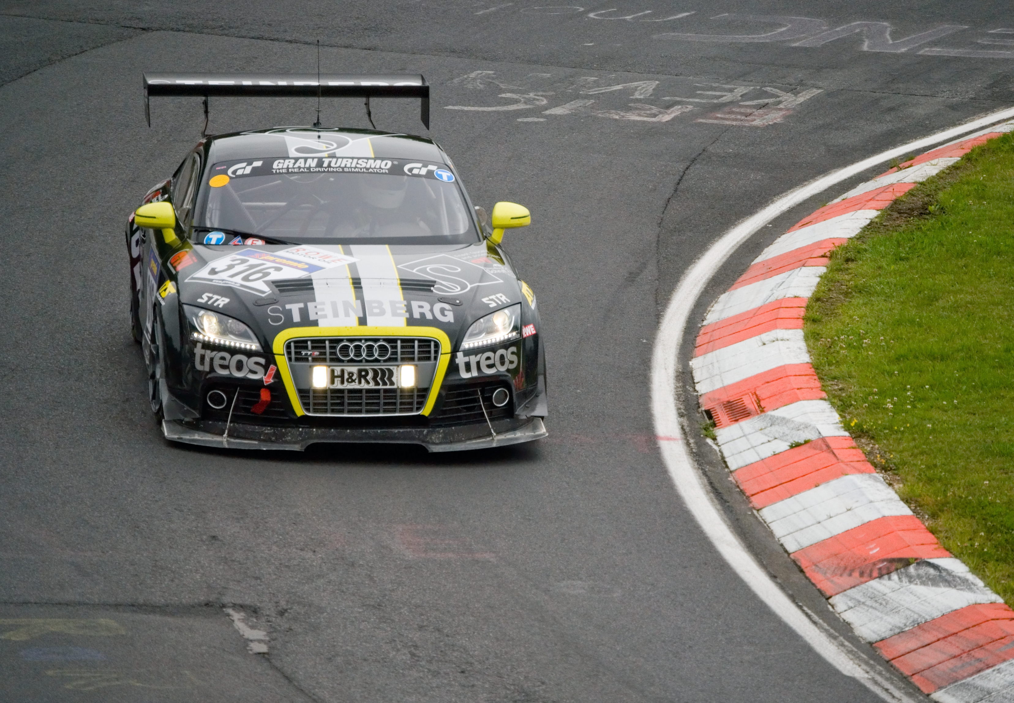 Nürburgring (Eifel, Rhineland-Palatinate, Germany) – VLN long distance championship 2011 – 34. RCM DMV Grenzlandrennen race – Nordschleife, section Nordkehre – Audi TTSThis photograph was taken with a Nikon D3000